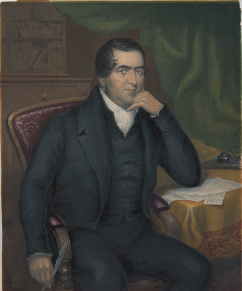 The Rev. John Williams, the Martyr of Erromanga, with a landscape of the Mission House and grounds of Rarotonga. The Rev. John Williams, the Martyr of Erromanga, with a landscape of the Mission House and grounds of Rarotonga. Designed, engraved and painted by G. Baxter, patentee of oil colour printing, Patriot Office, London. No 1 of the Missionary Portrait Gallery. n.d. [Rev. John Williams (1796-1839) of the London Missionary Society. Founder of the Samoan & other missions. ìThe martyr of Erromangaî one of the New Hebrides group. Murdered by the natives, Nov.r 20th 1839 at 43 years. n.d.]